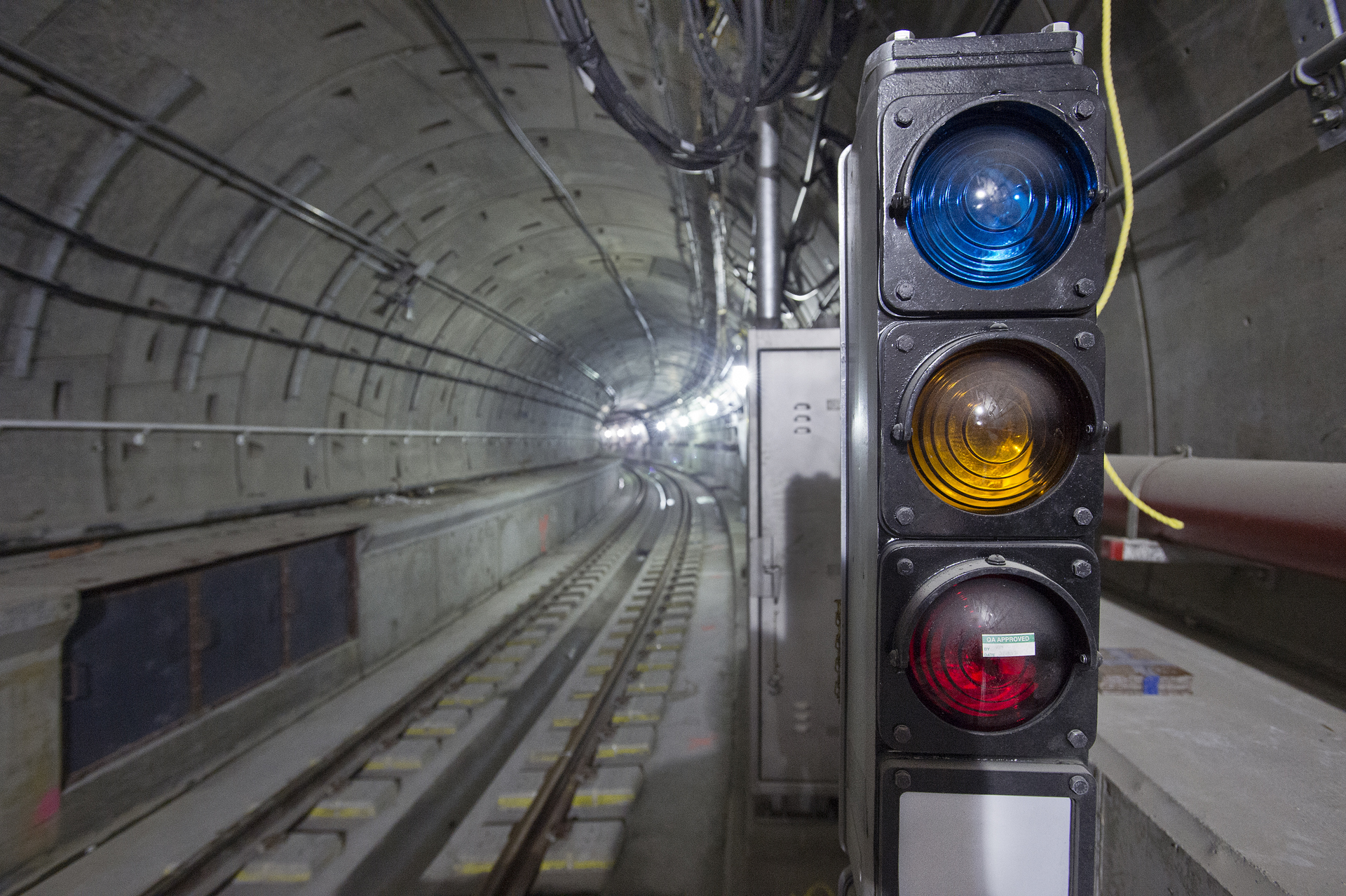 Progress continues on the extension of the No. 7 line to 34th Street and Eleventh Avenue in Manhattan. This photo shows construction progress as of June 2013. Photo: Metropolitan Transportation Authority / Patrick Cashin